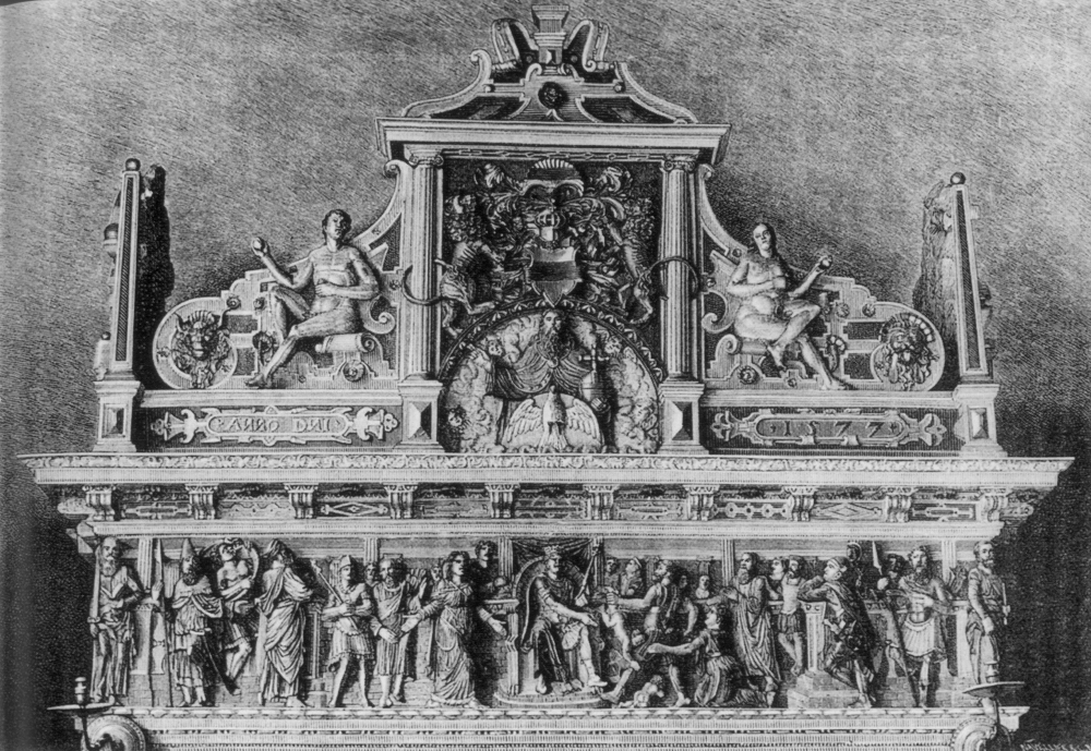 The original fire-place installed in the historical city hall in Münster, Westphalia, Germany. Destroyed during allied bombing raid on the city in WW2 on October 28, 1944.